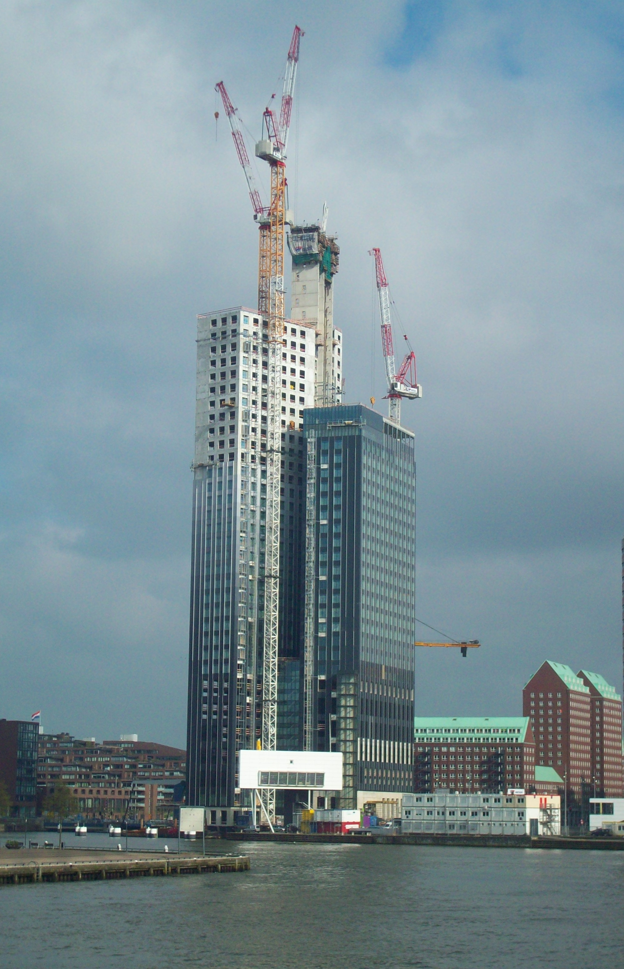 Picture of the Maastoren in Rotterdam